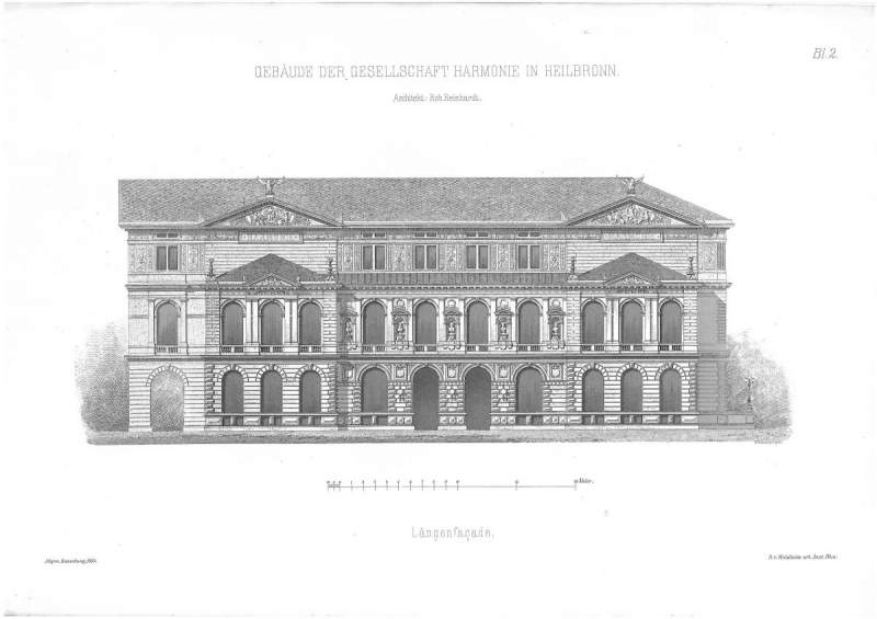 Alte Harmonie in Heilbronn, Entwurf von Robert von Reinhardt (* 11. Januar 1843 in Neuffen; † 5. Mai 1914 in Stuttgart) , Fassade